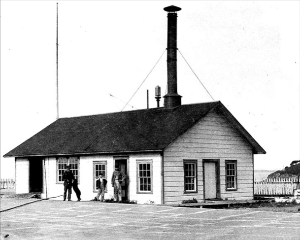 Fog signal building of East Brother Light, c. 1900